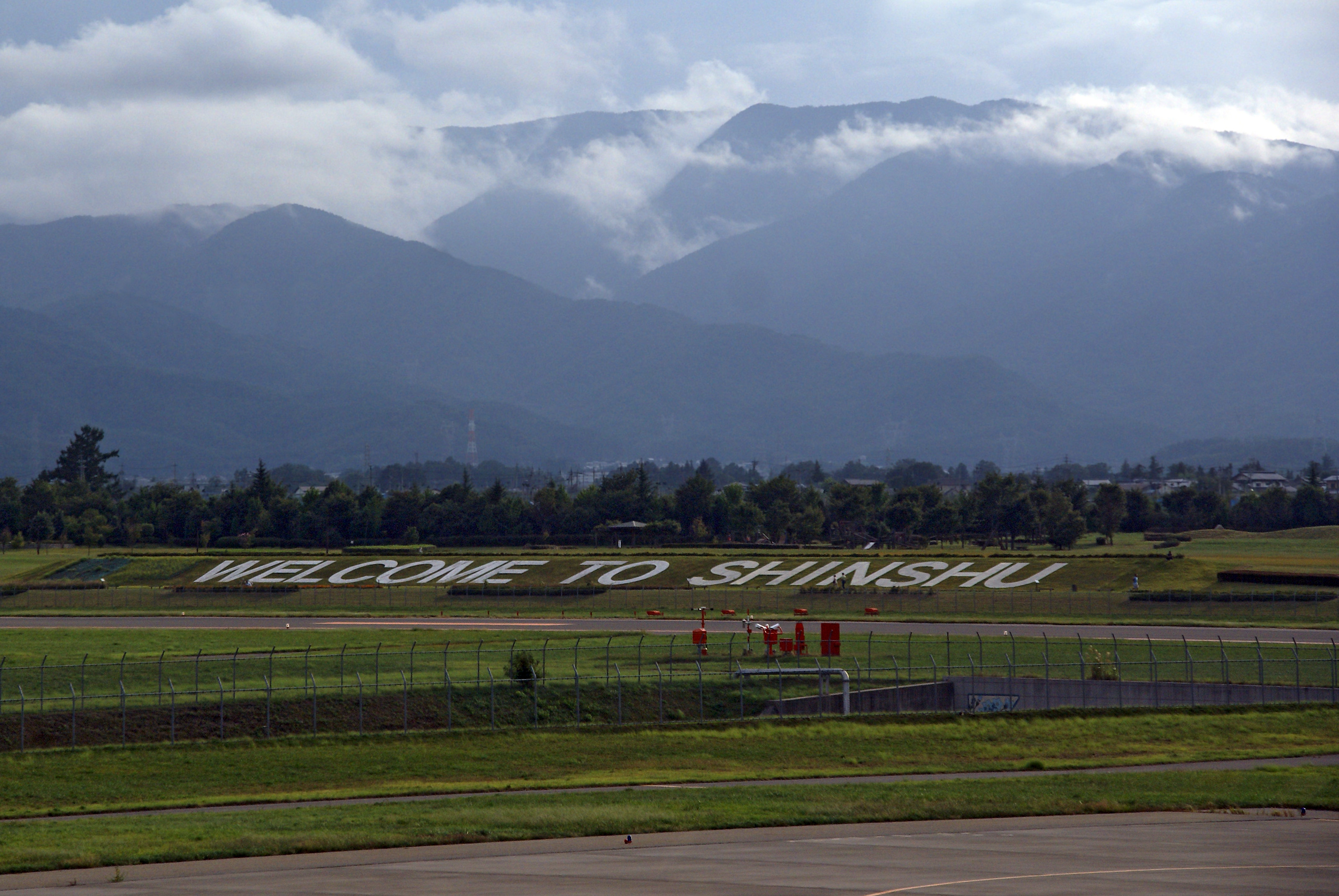 Matsumoto Airport in Matsumoto, Nagano prefecture, Japan